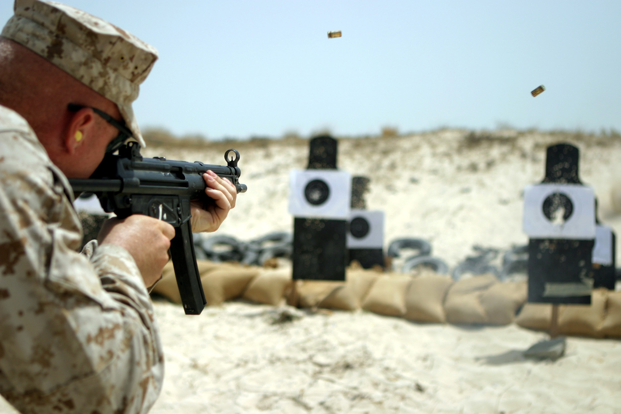 First Sgt. Patrick J. Delaney, the company first sergeant for Echo Company, Battalion Landing Team, 2nd Bn., 8th Marines, 26th Marine Expeditionary Unit (Special Operations Capable), fires an MP5 submachine gun June 22 in Ra'sal Ghar, Saudi Arabia.